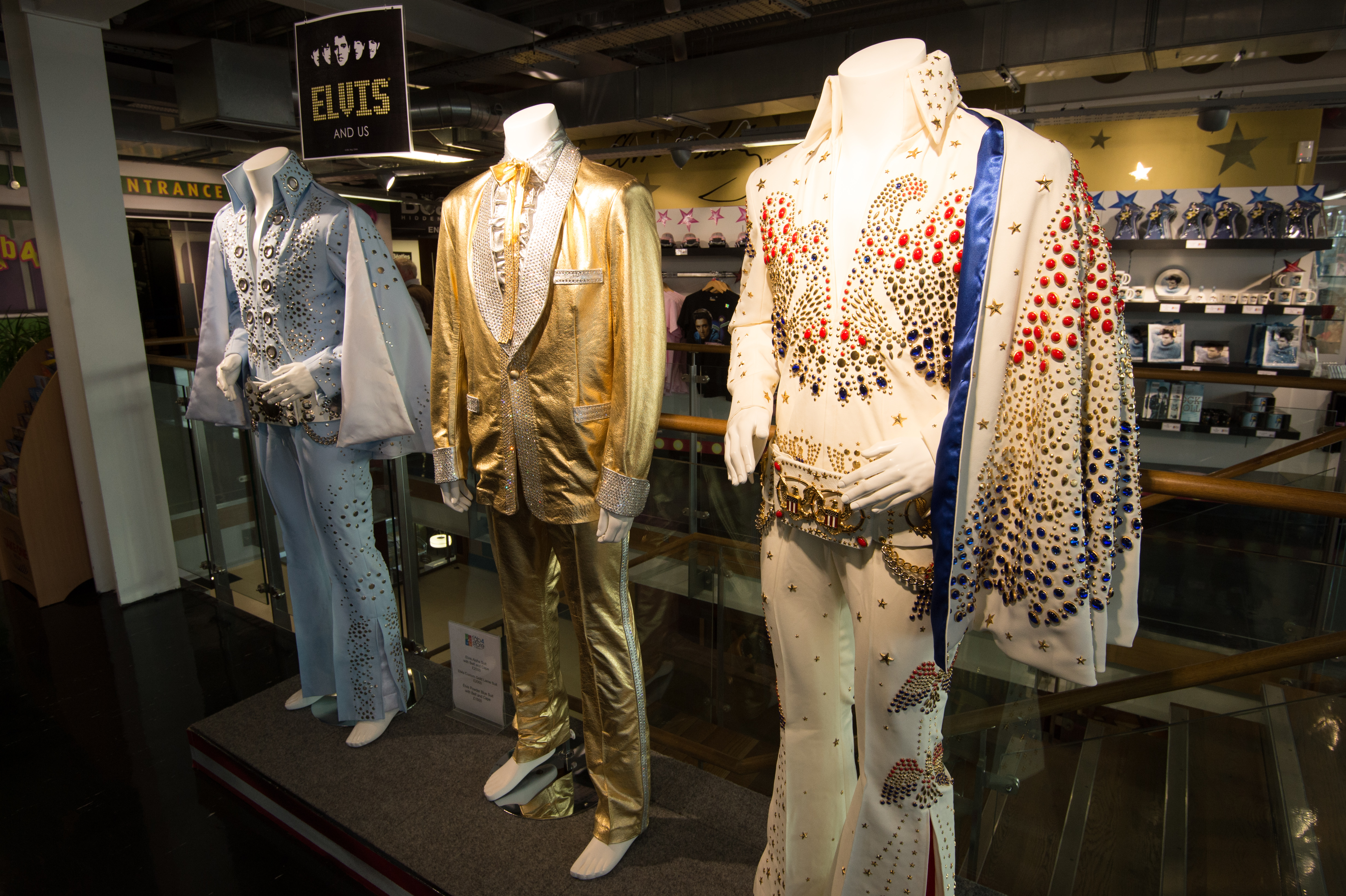 The Beatles Story has an extended ticket hat you can also view contents of Elvis Presley! There is no Japanese edition of audio guide player though, the English edition of it speaks me slowly and clearly and it is not that difficult to catch what it says. It was a really nice player like me who is a big fan of British English and non-native English speaker. By the way, I love a radio English conversation program from NHK by Ken Tohyama. His program is amazing and that's why my English okay now. And he is a big fan of Elvis Presley. There was a special month of Elvis Presley. That's why I'm familiar with Elvis. I like "Blue suede shoes" most in his song, which used be the theme song of the program during the special month of Elvis Presley LOL